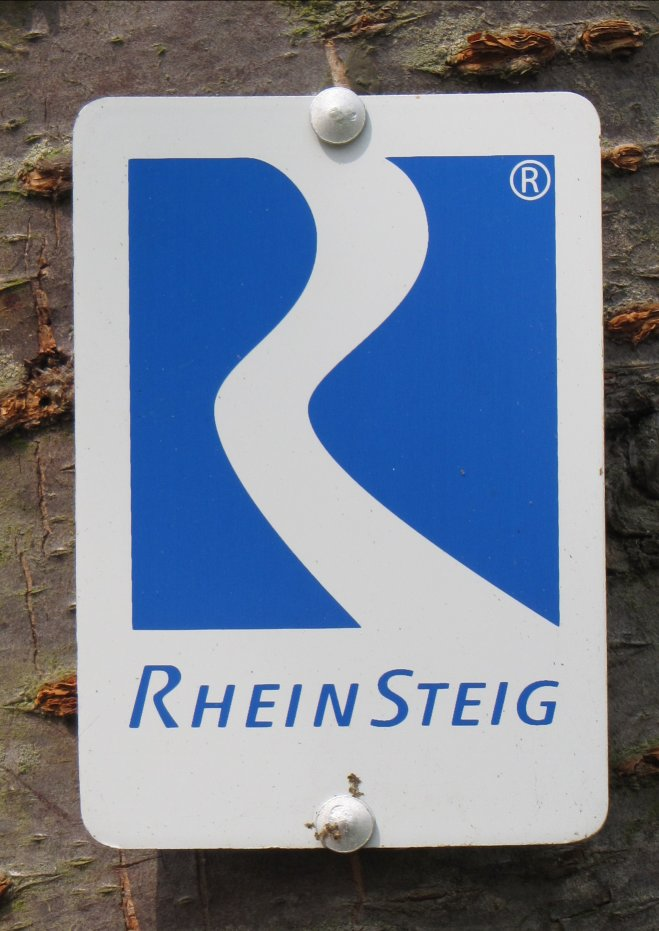 Rheinsteig